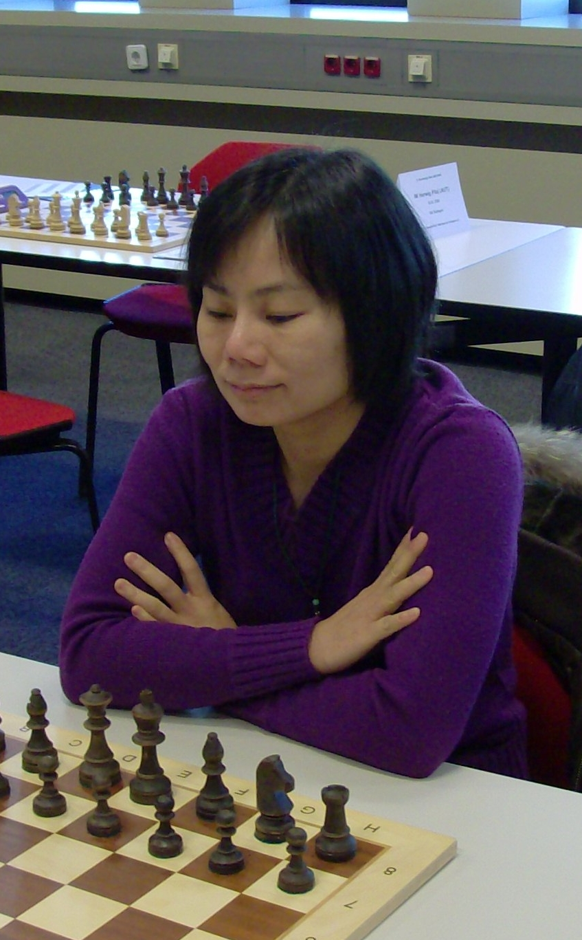 Peng Zhaoqin, chess grandmaster from the Netherlands